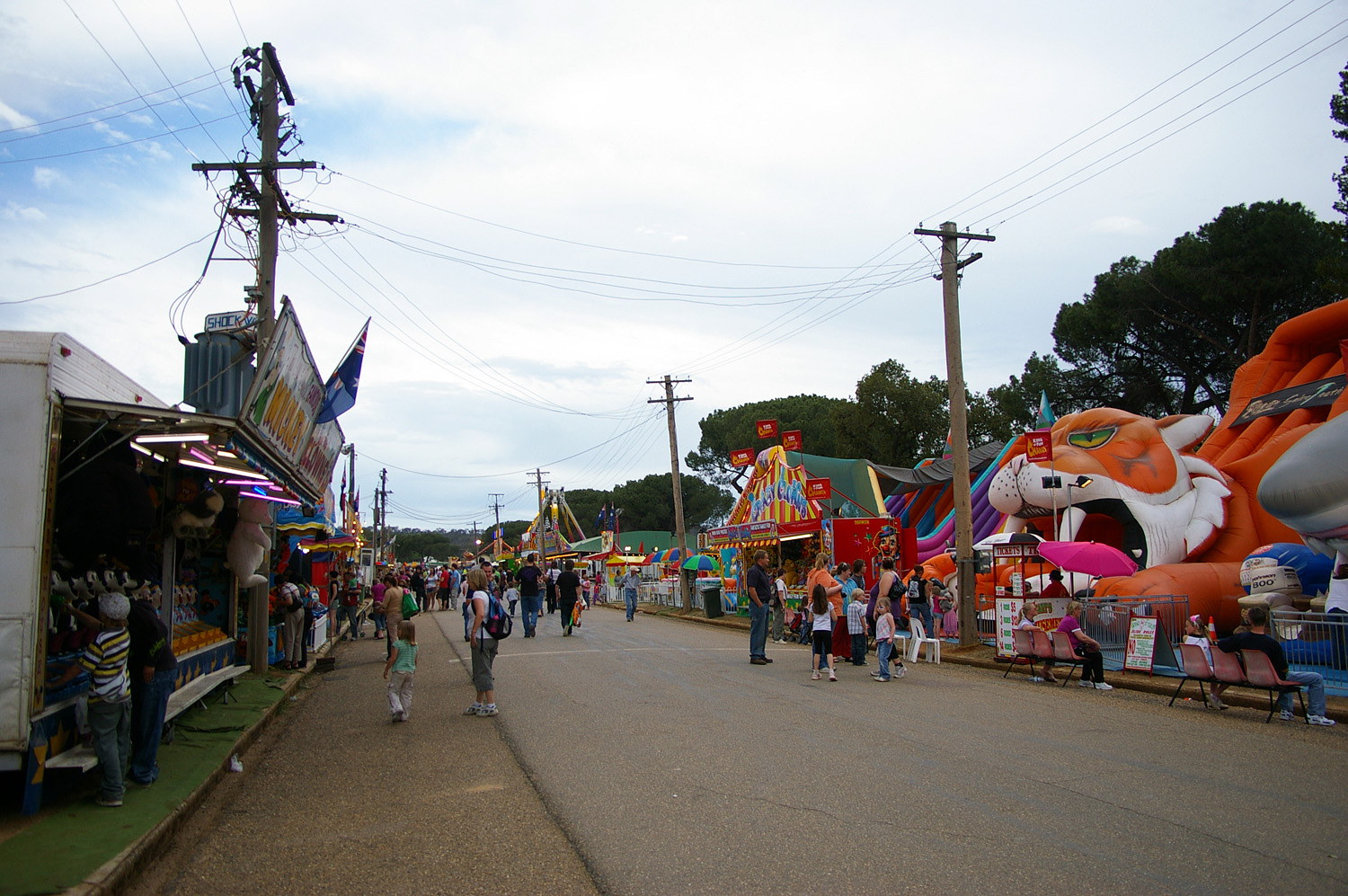 Sideshow alley at the 144th Wagga Wagga Show.